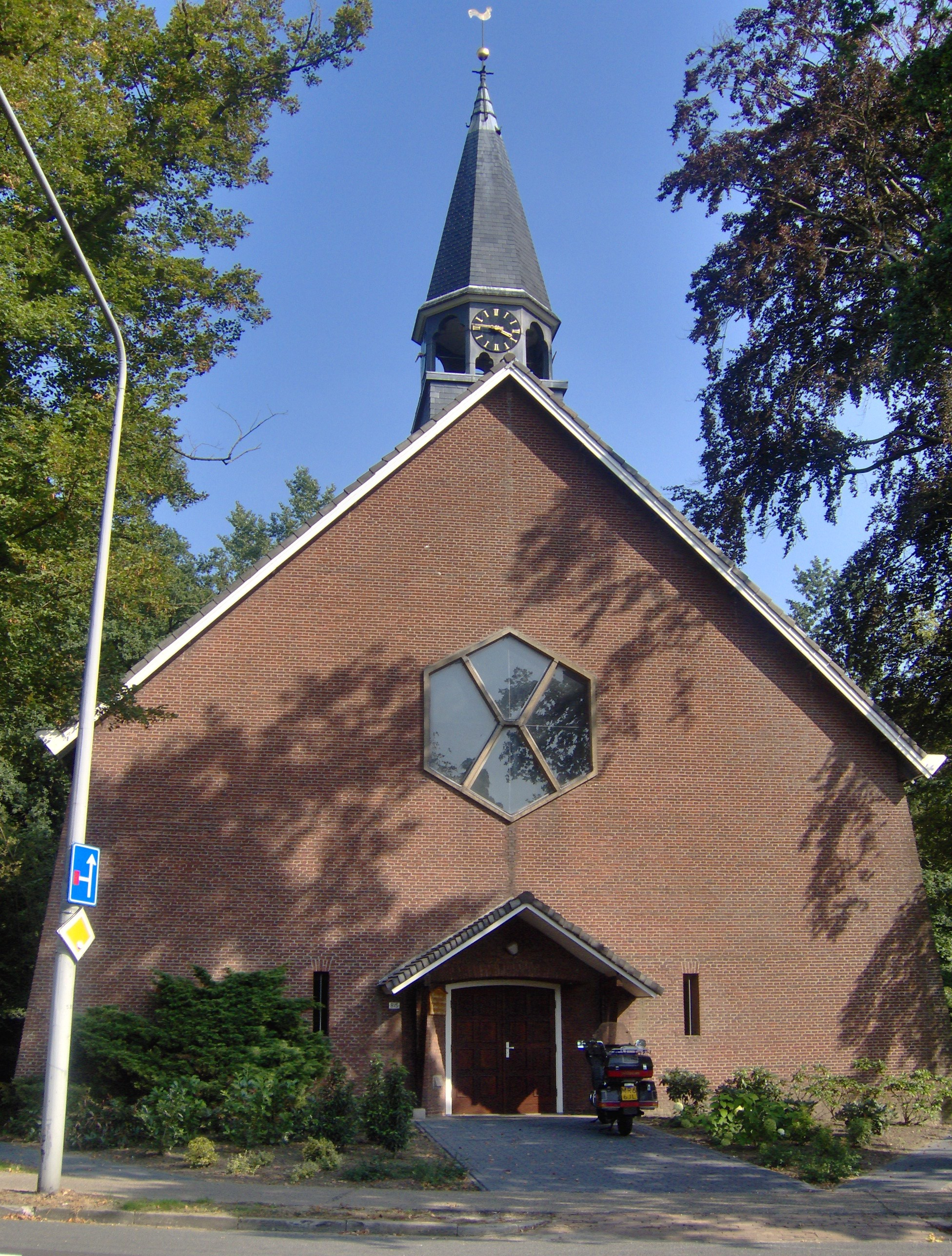 The Dutch Reformed Church of Usselo, a little village in the municipality of Enschede, Netherlands